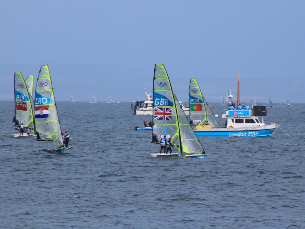 Competitors in the men's 49er race at the 2012 Summer Olympics gather around the officials' boat for the start of a heat.